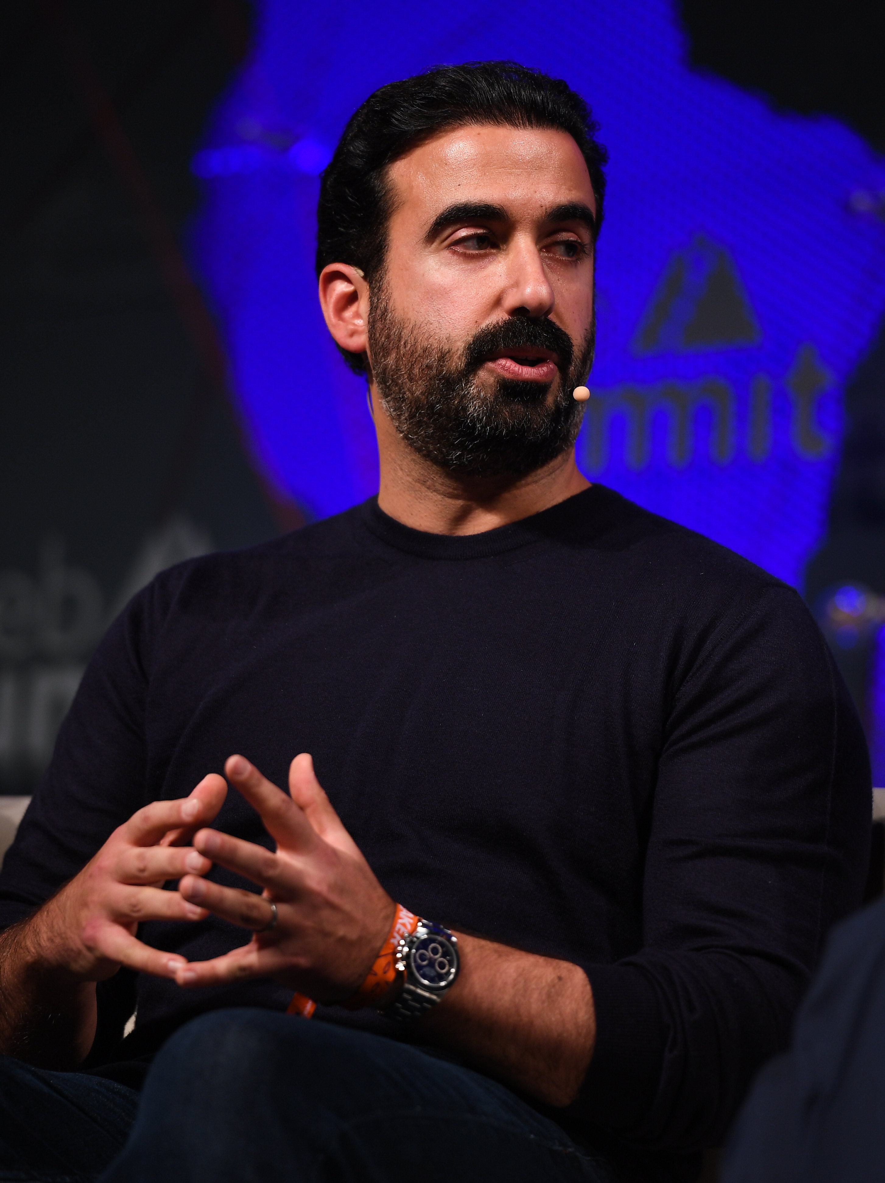 7 November 2019; Ayman Hariri, Founder&CEO, VERO, on Future Societies Stage during the final day of Web Summit 2019 at the Altice Arena in Lisbon, Portugal. Photo by Eóin Noonan/Web Summit via Sportsfile